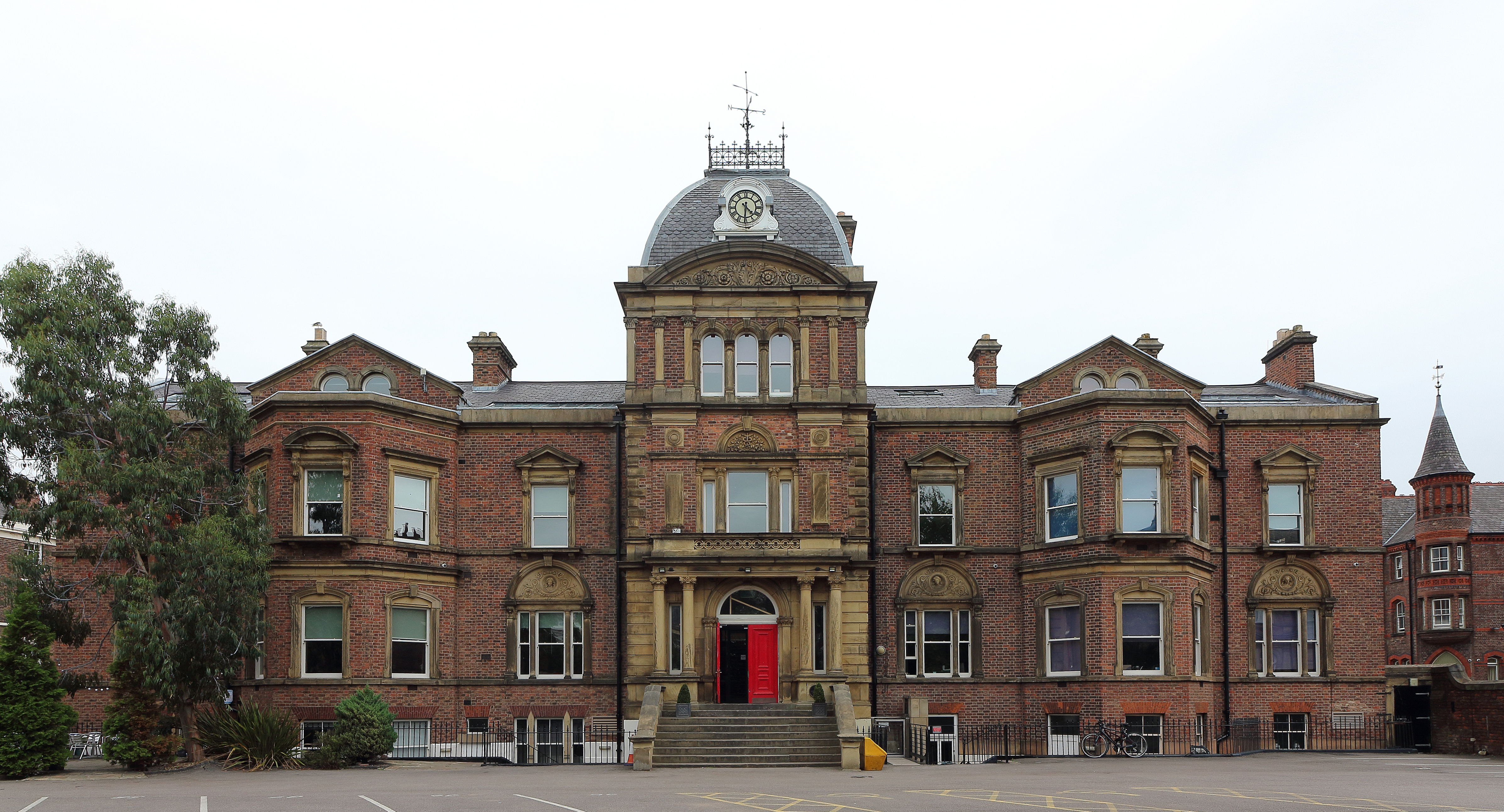 Front elevation of Grade II listed Blackburne House, for once the car park is empty.